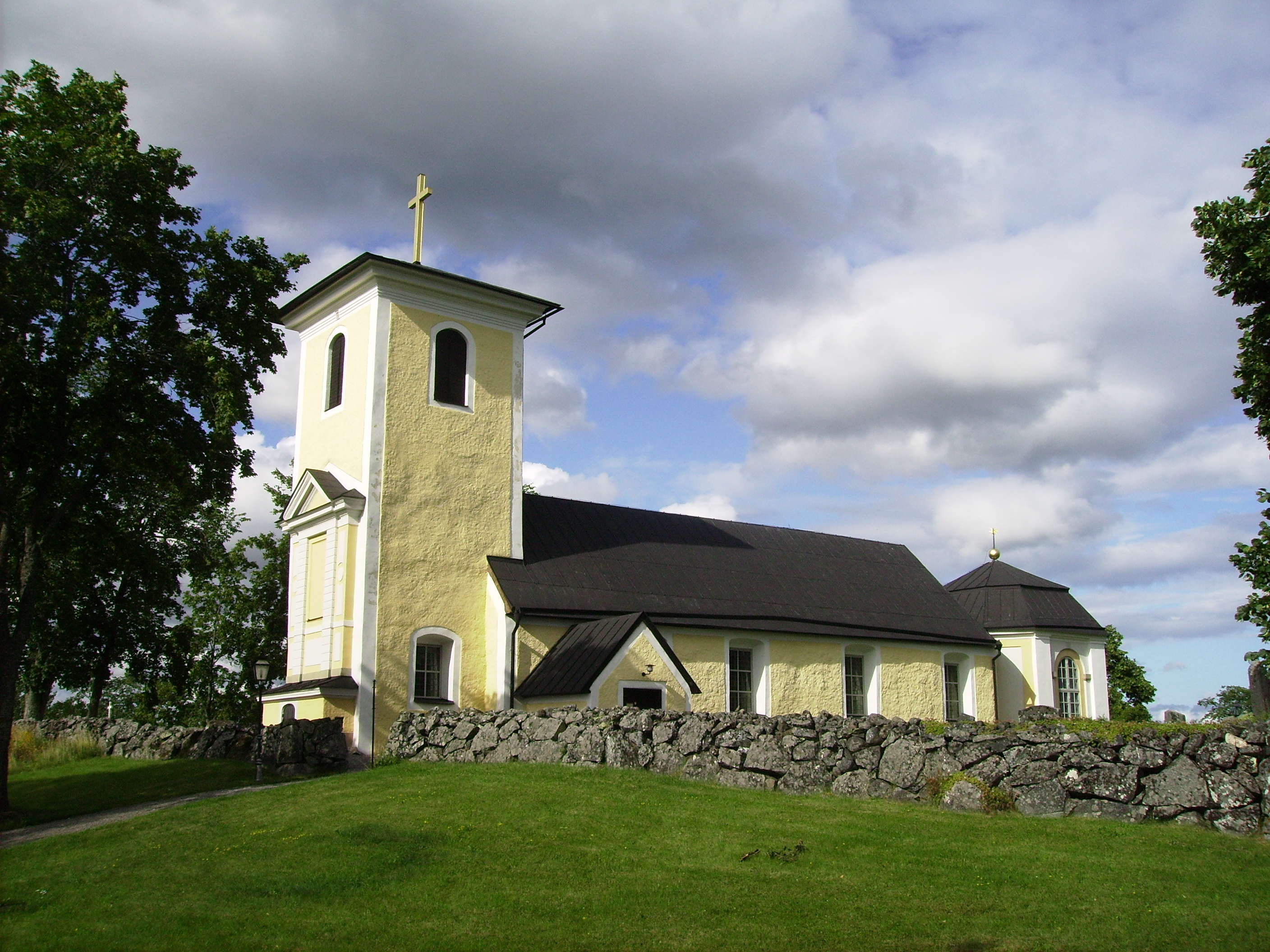 Picture of Torsåkers kyrka in Södermanland